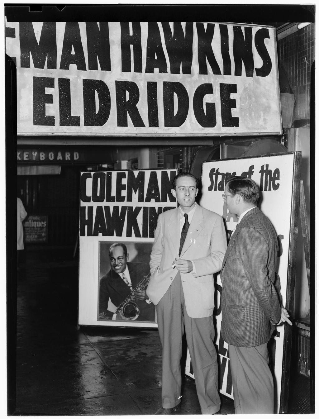 Gottlieb, William P., 1917-, photographer. [Portrait of Charles Delaunay and Walter E. Schaap, 52nd Street, New York, N.Y., ca. Oct. 1946] 1 negative : b&w ; 3 1/4 x 4 1/4 in. Notes: Gottlieb Collection Assignment No. 109 Reference print available in Music Division, Library of Congress. Purchase William P. Gottlieb Forms part of: William P. Gottlieb Collection (Library of Congress). Subjects: Delaunay, Charles Schaap, Walter E. Music critics--1940-1950. Fifty-second Street (New York, N.Y.)--1940-1950. Format: Portrait photographs--1940-1950. Group portraits--1940-1950. Film negatives--1940-1950. Rights Info: Mr. Gottlieb has dedicated these works to the public domain, but rights of privacy and publicity may apply. Repository: (negative) Library of Congress, Prints & Photographs Division, Washington D.C. 20540 USA, (contact print) Library of Congress, Prints & Photographs Division, Washington D.C. 20540 USA, (reference print) Library of Congress, Music Division, Washington D.C. 20540 USA, Part Of: William P. Gottlieb Collection (DLC) 99-401005 General information about the Gottlieb Collection is available at Persistent URL: Call Number: LC-GLB13- 0197 This work is from the William P. Gottlieb collection at the Library of Congress. Rights and restrictions.In accordance with the wishes of William Gottlieb, the photographs in this collection entered into the public domain on February 16, 2010.